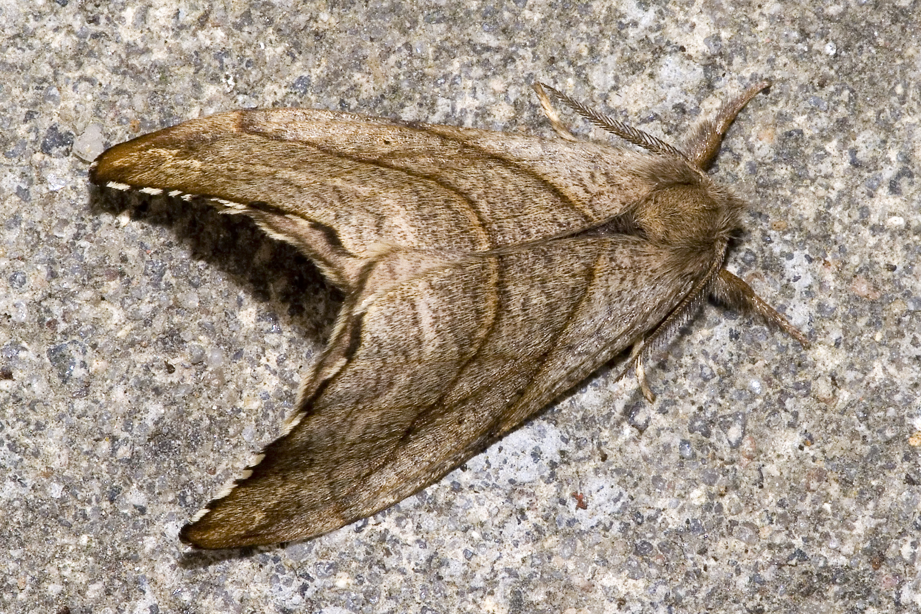 Scalloped Hook-tip, Falcaria lacertinaria